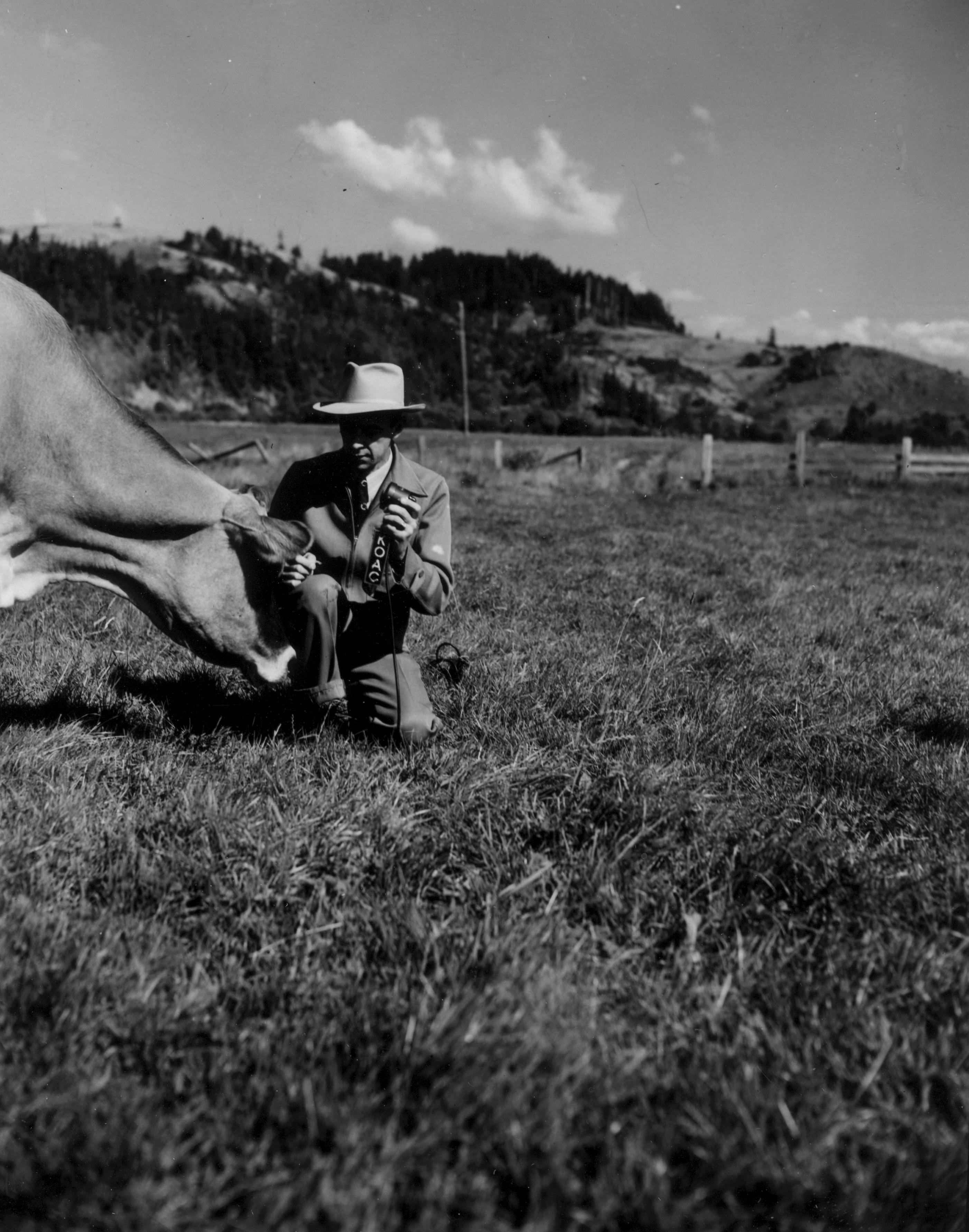 Original Collection: Extension and Experiment Station Communications Photograph Collection (P 120) Item Number: P020:665 Image Description: Proving that anybody or anything can talk with Arnold Ebert on KOAC, he is caught in the act while interviewing a cow on the Ralph Cope farm near Langlois. He was the radio farm director for KOAC. You can find this image by searching for the item number by clicking here. Want more? You can find more digital resources online. We're happy for you to share this digital image within the spirit of The Commons; however, certain restrictions on high quality reproductions of the original physical version may apply. To read more about what “no known restrictions” means, please visit the Special Collections & Archives website, or contact staff at the OSU Special Collections & Archives Research Center for details.